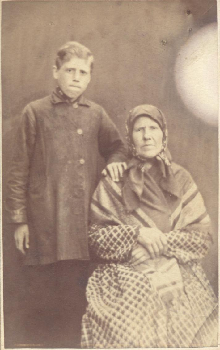 Russian Orthodox theologist Nikolay Nikanorovich Glubokovski